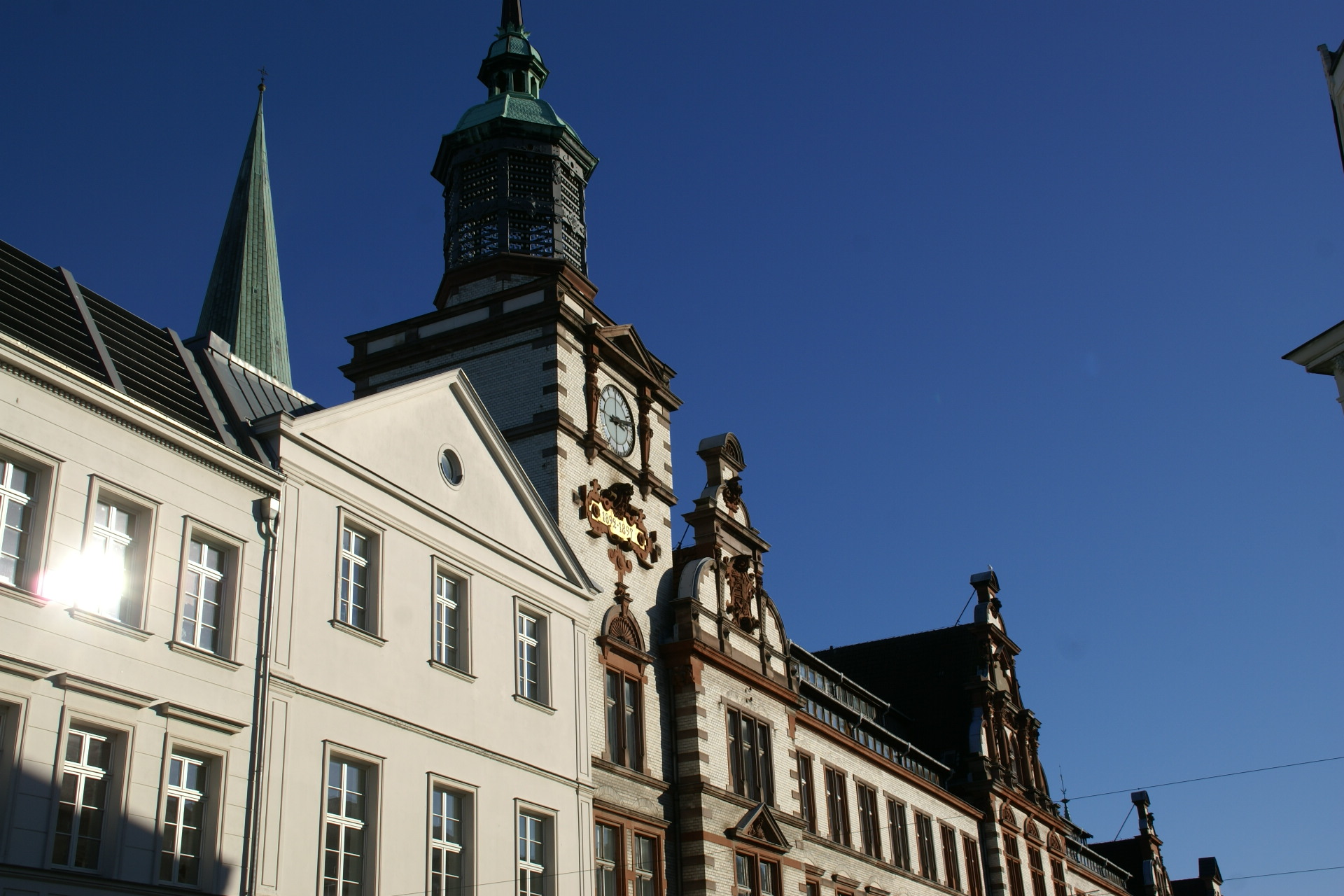 Post office building at Mecklenburg Street (the pedestrian zone) in Schwerin, Germany